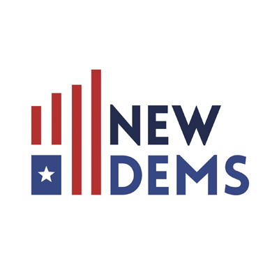 This is a logo for New Democrat Coalition.